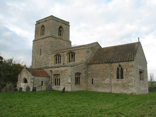 Haceby Church, Dedicated To The Saints Margaret & Barbara. First time I have come across a church dedicated to Saint Barbara. Albeit shared with Saint Margaret.